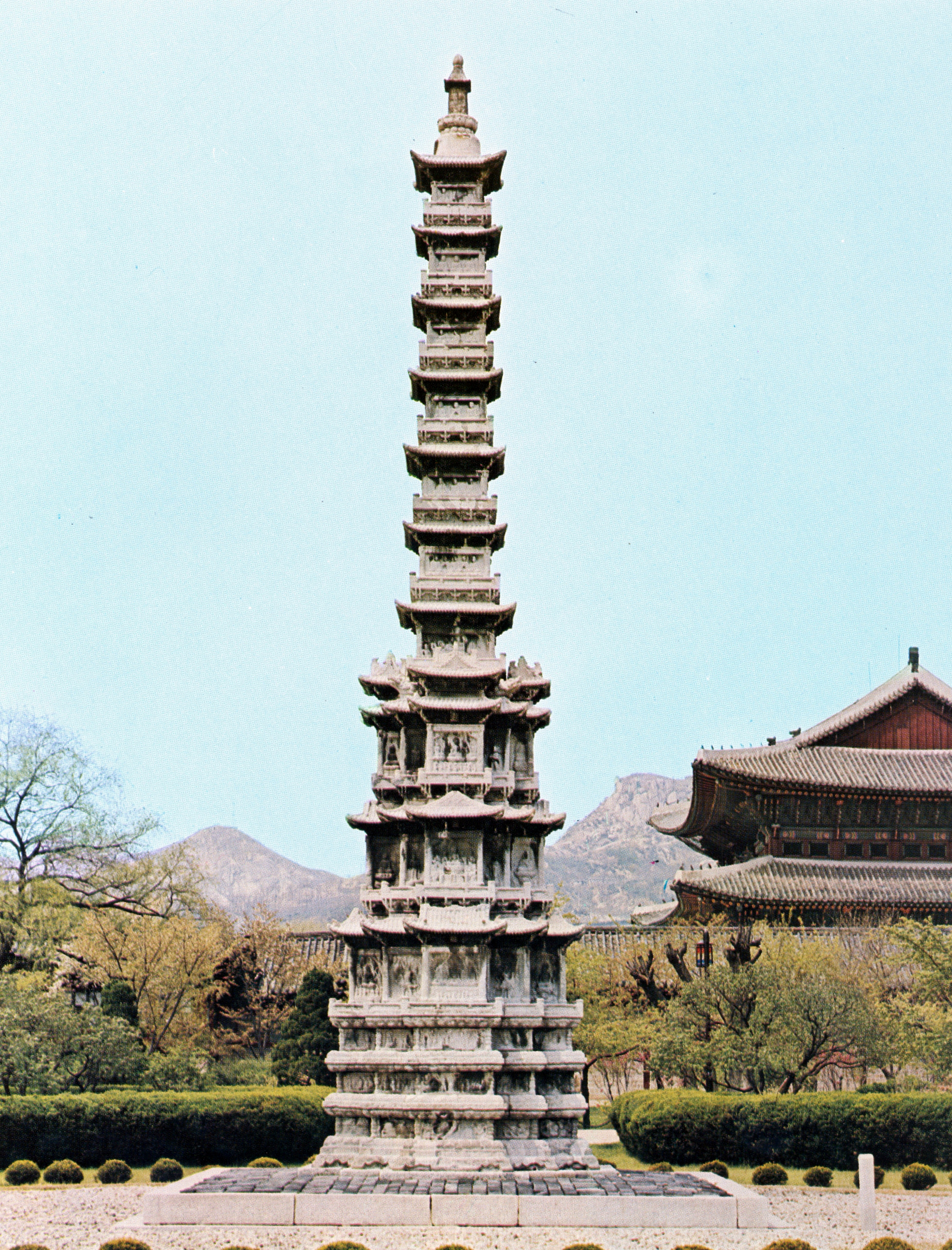 Ten-story Stone Pagoda at Gyeongcheonsa temple site in Gaeseong, Korea